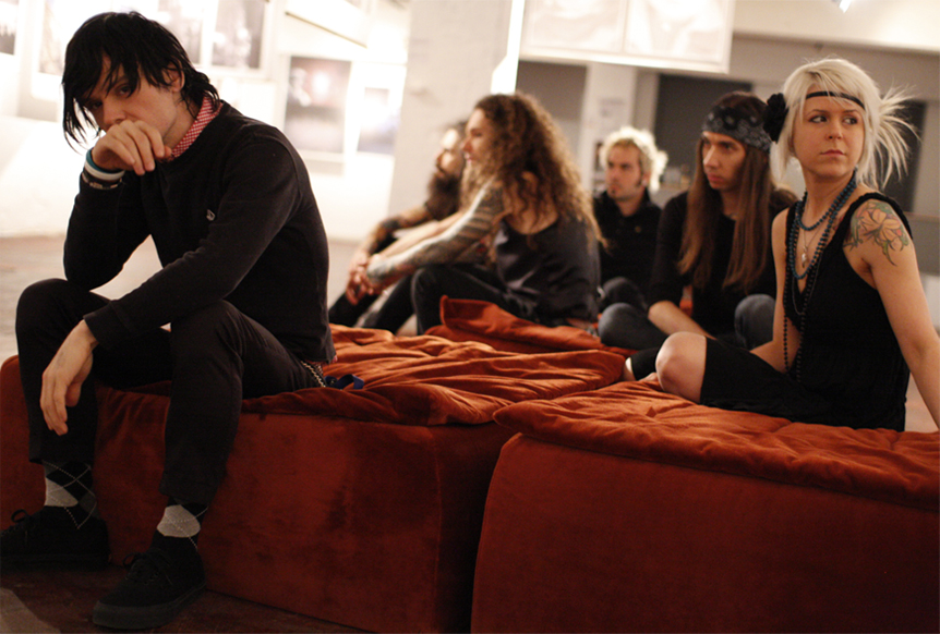 Description: From left to right: Alex Foster, Sef, Ben Lemelin, Jeff Beaulieu, Charles (Moose) Allicy, Miss Isabel Author: Miriam Darras Permission